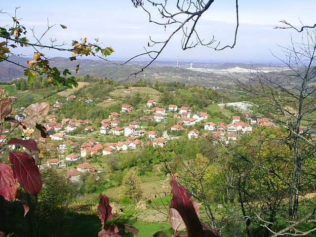 Town of Teočak, Bosnia and Herzegovina